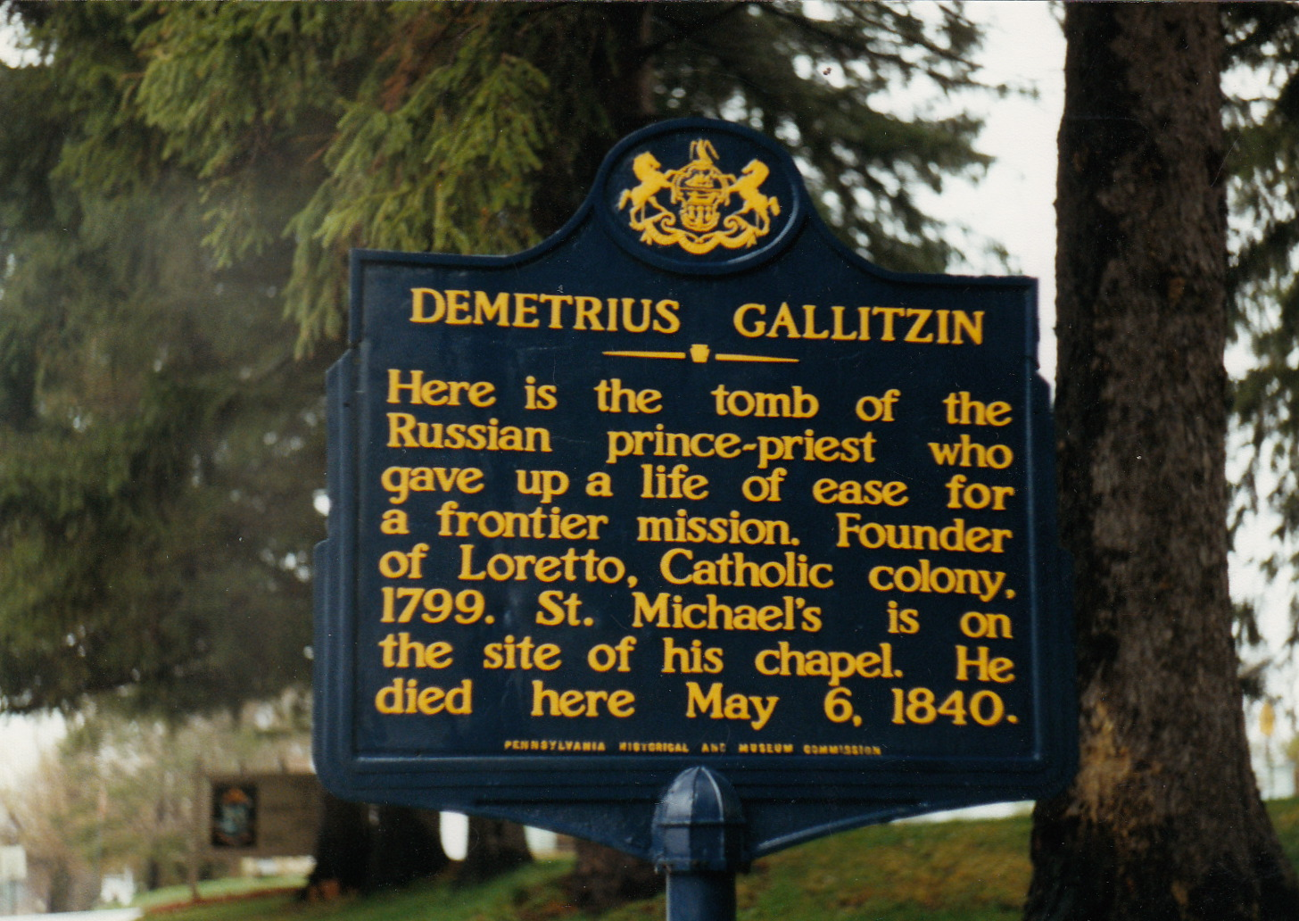 Historical Market for Dimitrius Gallitzin, Gallitzin, PA